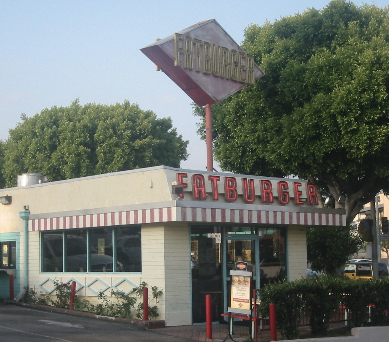 Fatburger on Vermont in Los Angeles, California